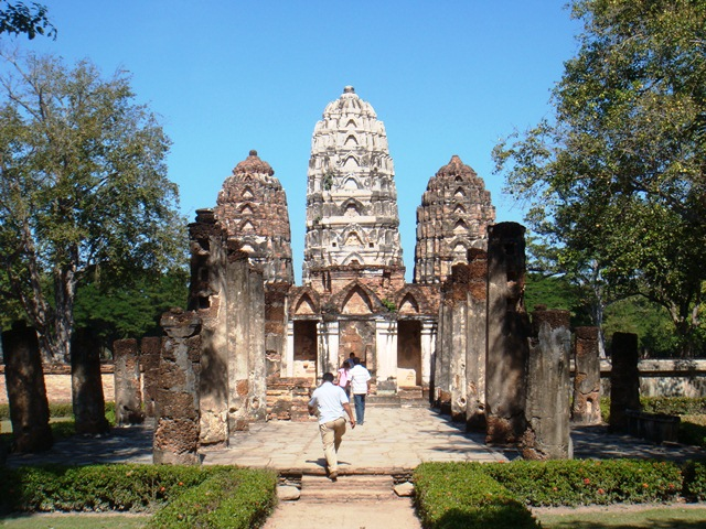 Wat Si Sawai, Sukhothai.